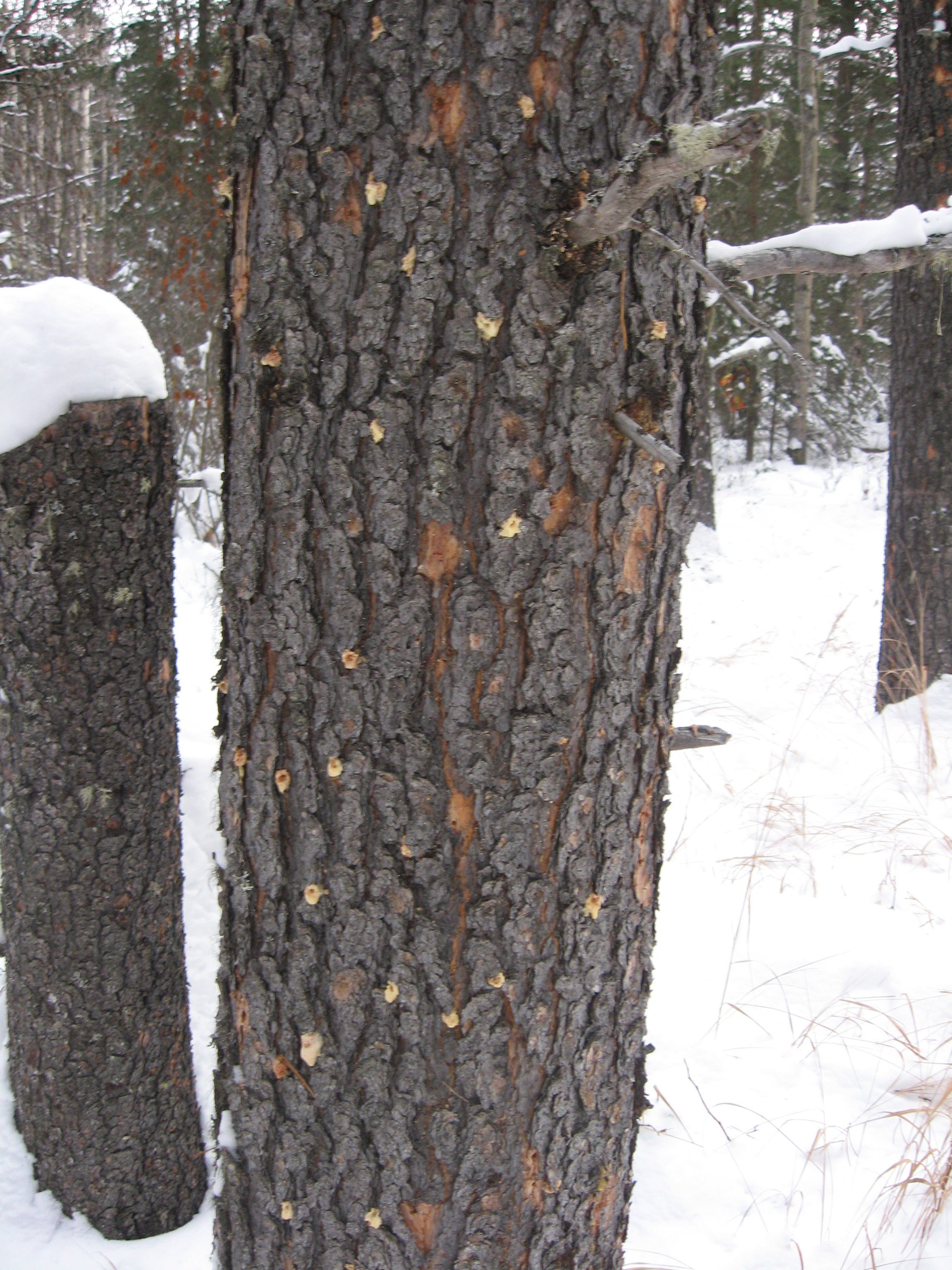 A lodgepole pine tree infested by the mountain pine beetle, with visible "pitch outs". Dendroctonus ponderosae